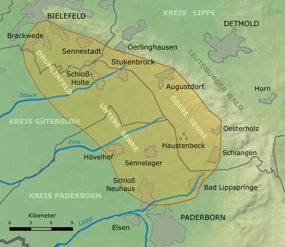 Map of Senne, North Rhine Westfalia, Germany